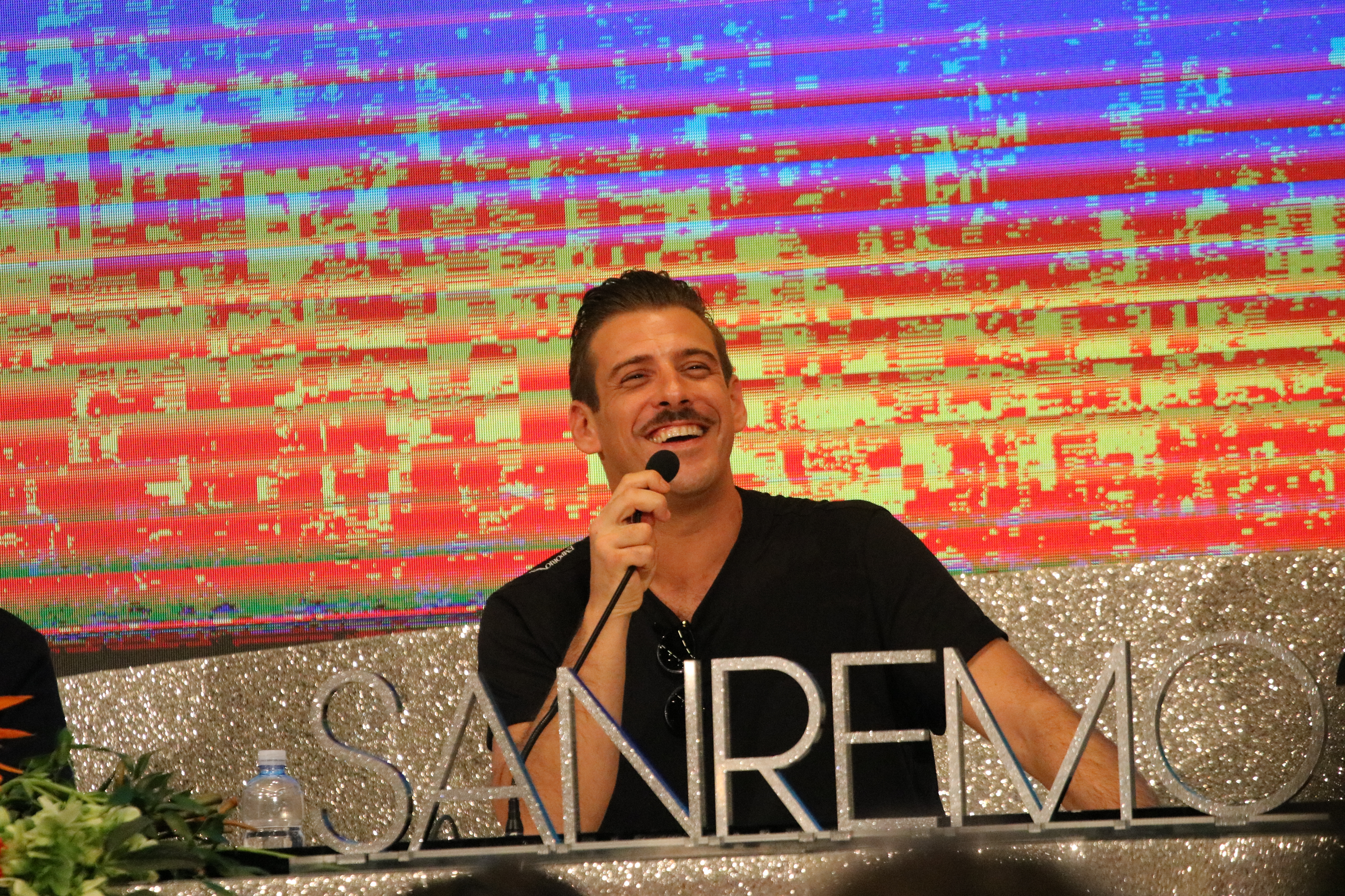 Francesci Gabbani di Sanremo